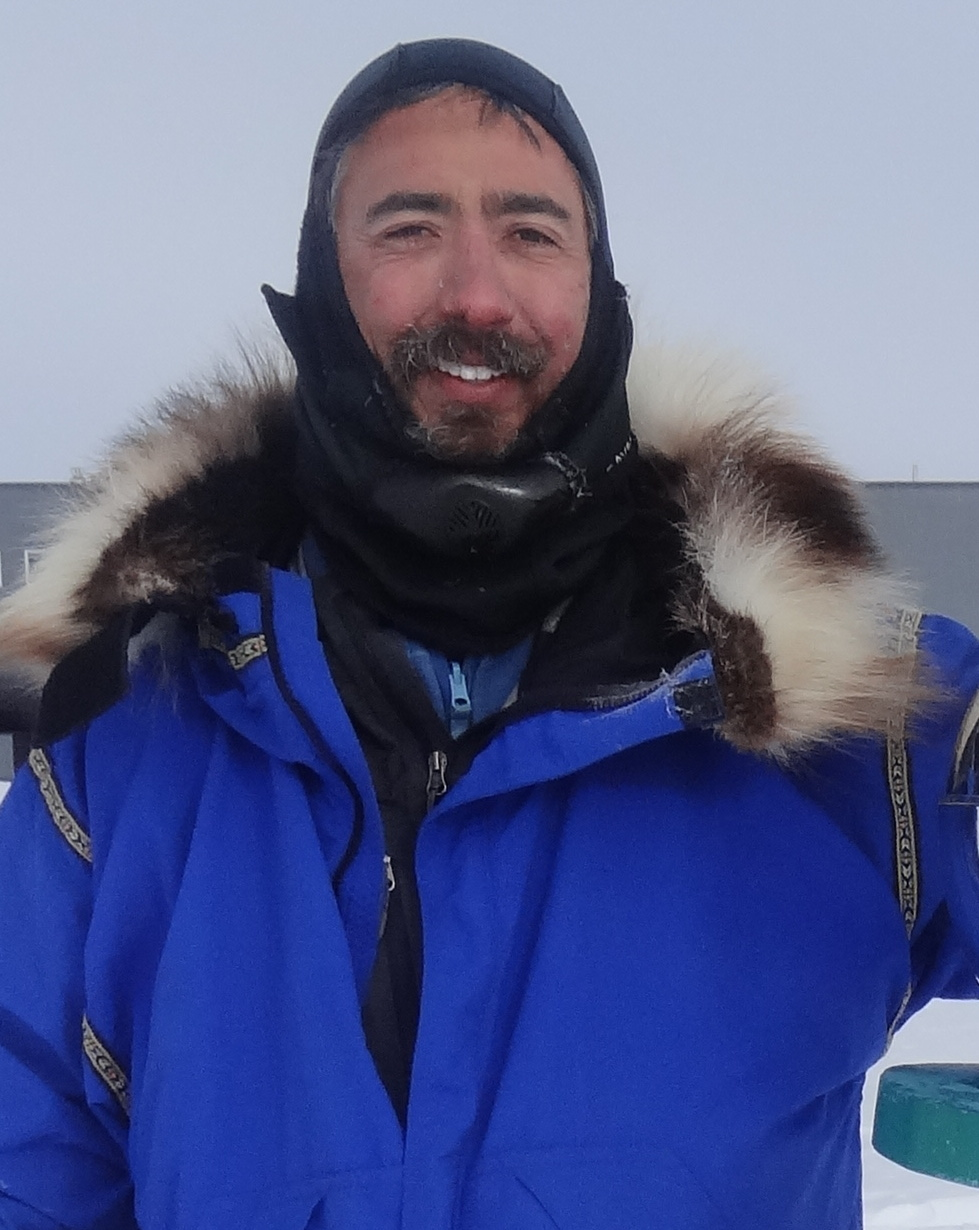 Aaron Linsdau at the South Pole on January 20, 2013.